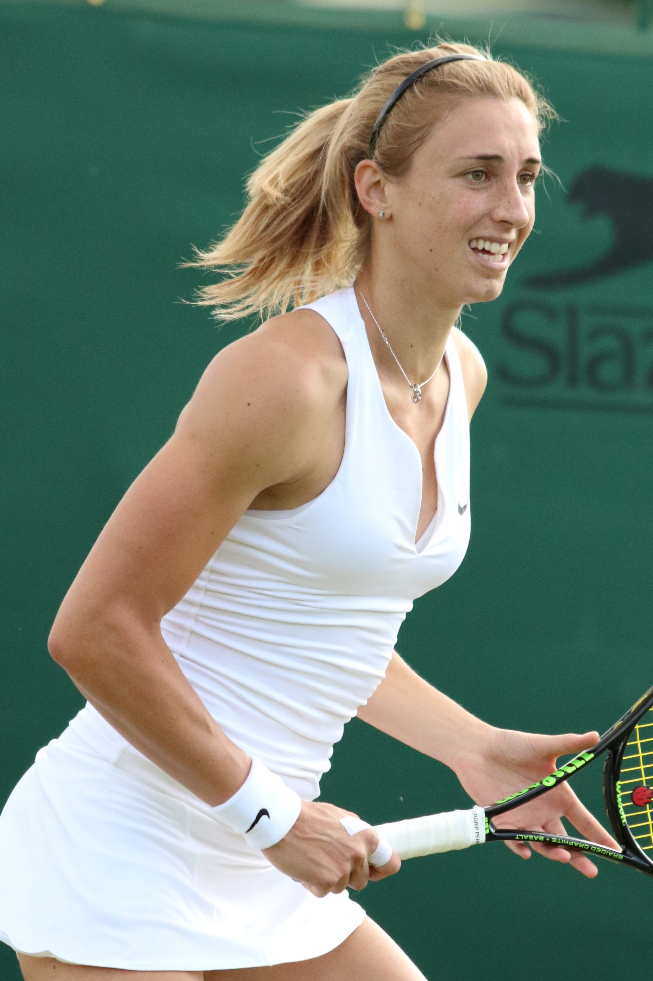 Martic WMQ16